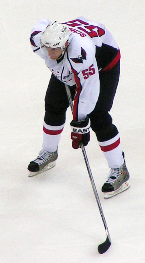 Jeff Schultz plays a homegame against New Jersey